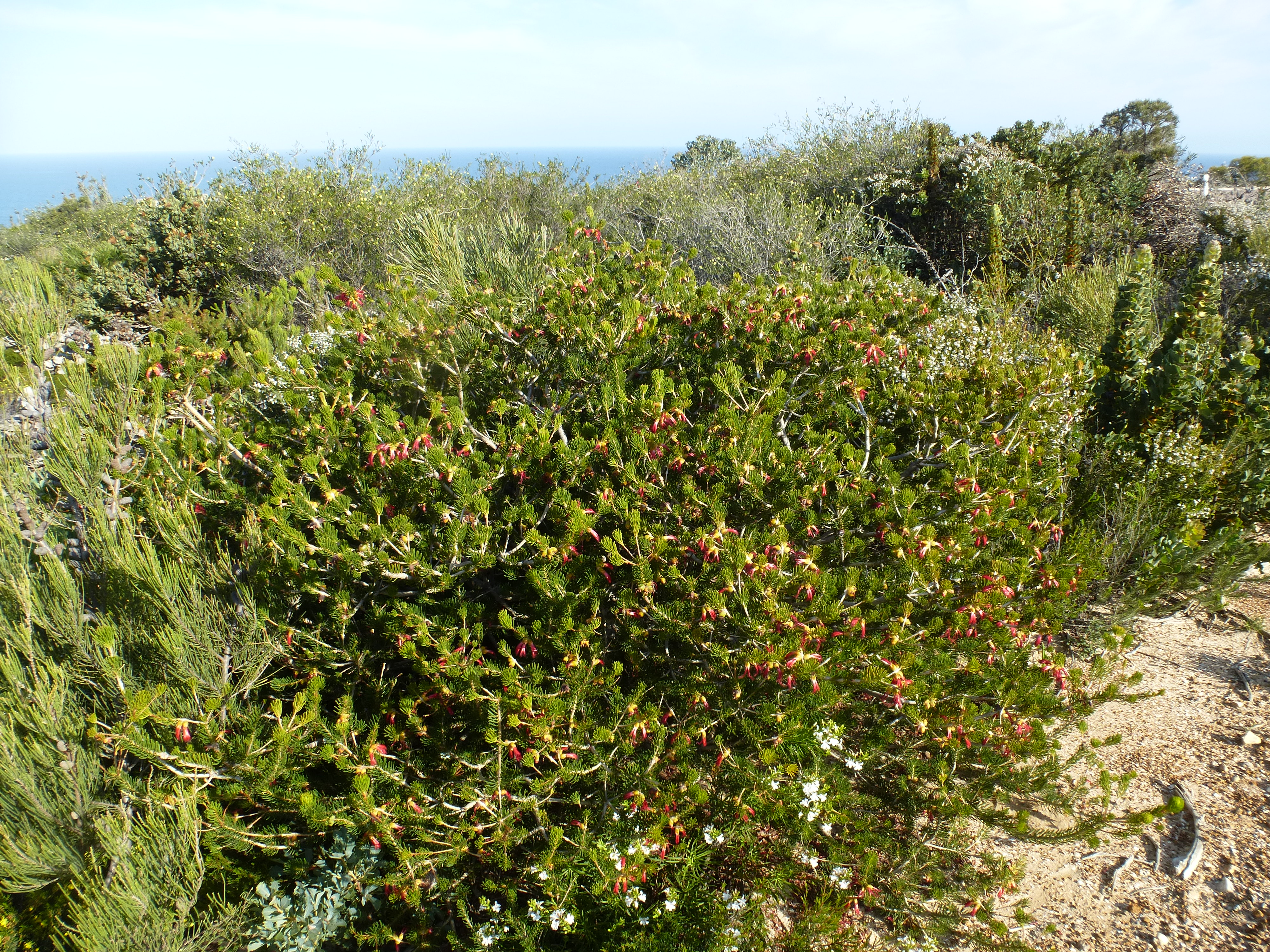 Calothamnus validus growing near East Mount Barren.